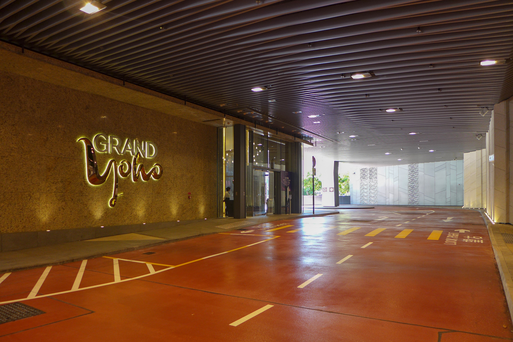 Grand YOHO GF Drop off area